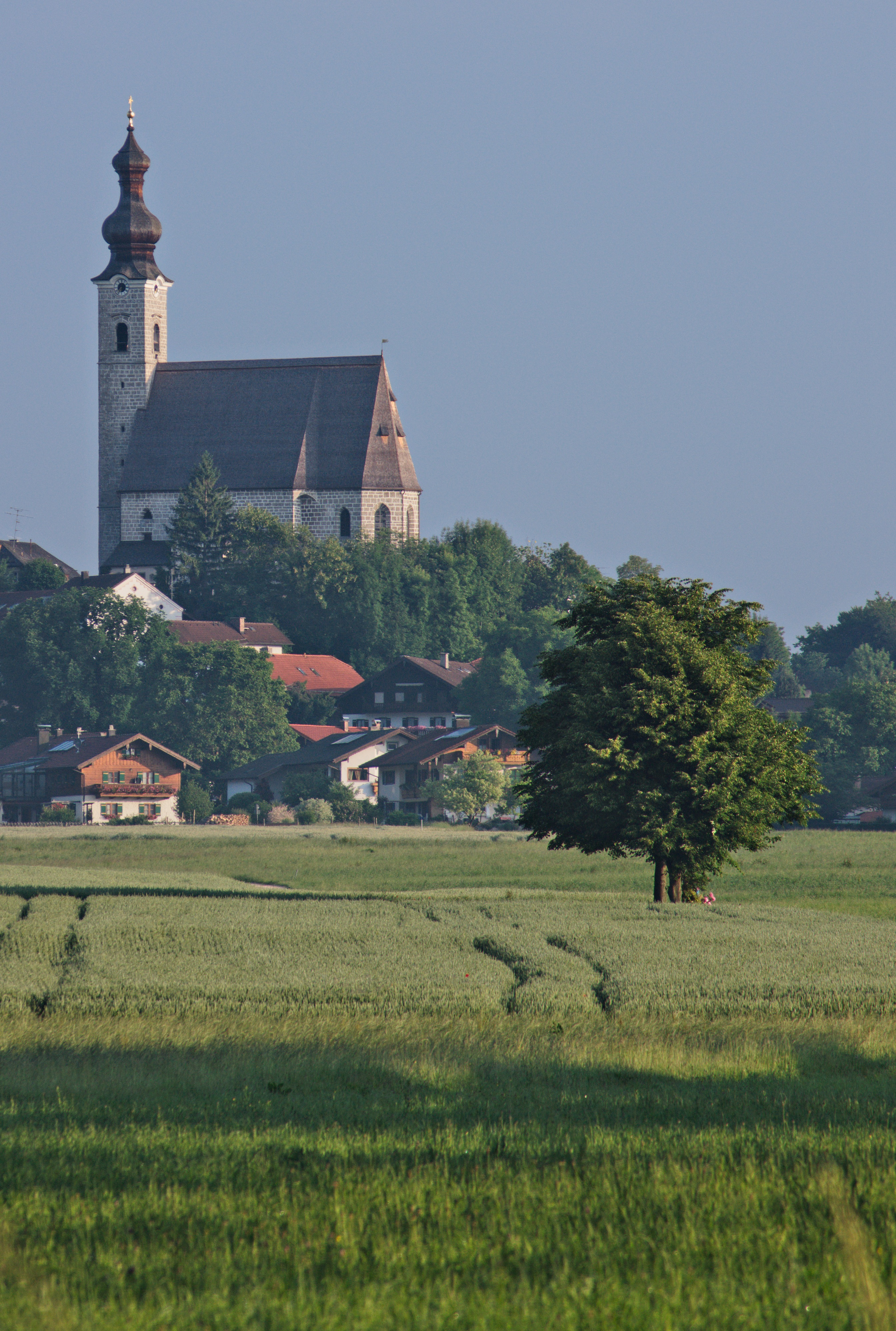 View from Aufham towards Anger. The Parish Church of the Assumption towers above the houses of the village.